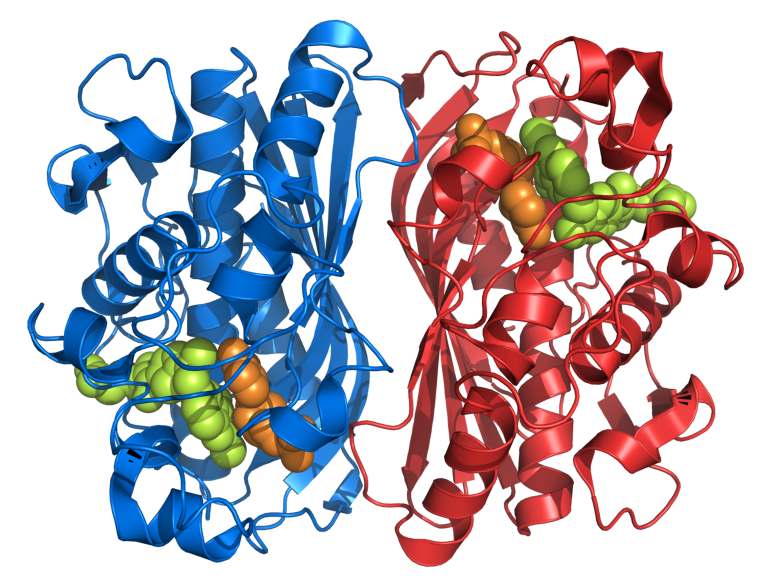 Ribbon diagram of human thymidylate synthase in complex with deoxyuridine monophosphate (orange) and the enzyme inhibitor raltitrexed (lime green). Created using PyMOL ( and GIMP. Legend A unit B unit Deoxyuridine monophosphate (dUMP) Raltitrexed